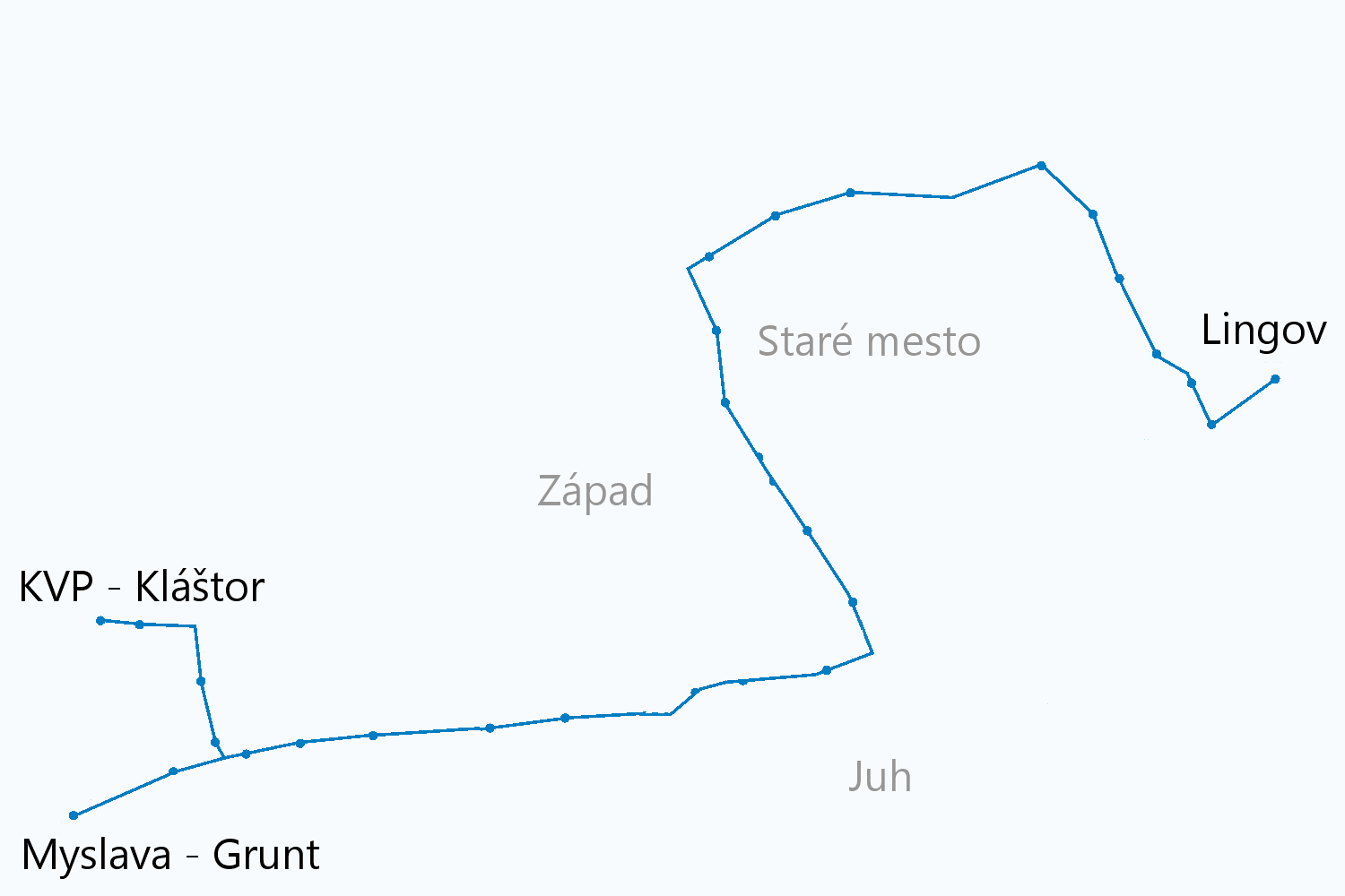 Košice trolley bus map with description